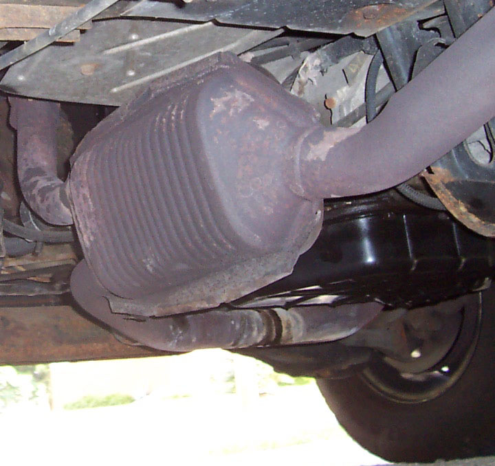 OEM Catalytic Converter on a 1996 Dodge Ram B2500 van. Dual inlets, single outlet. old, and about to be replaced.